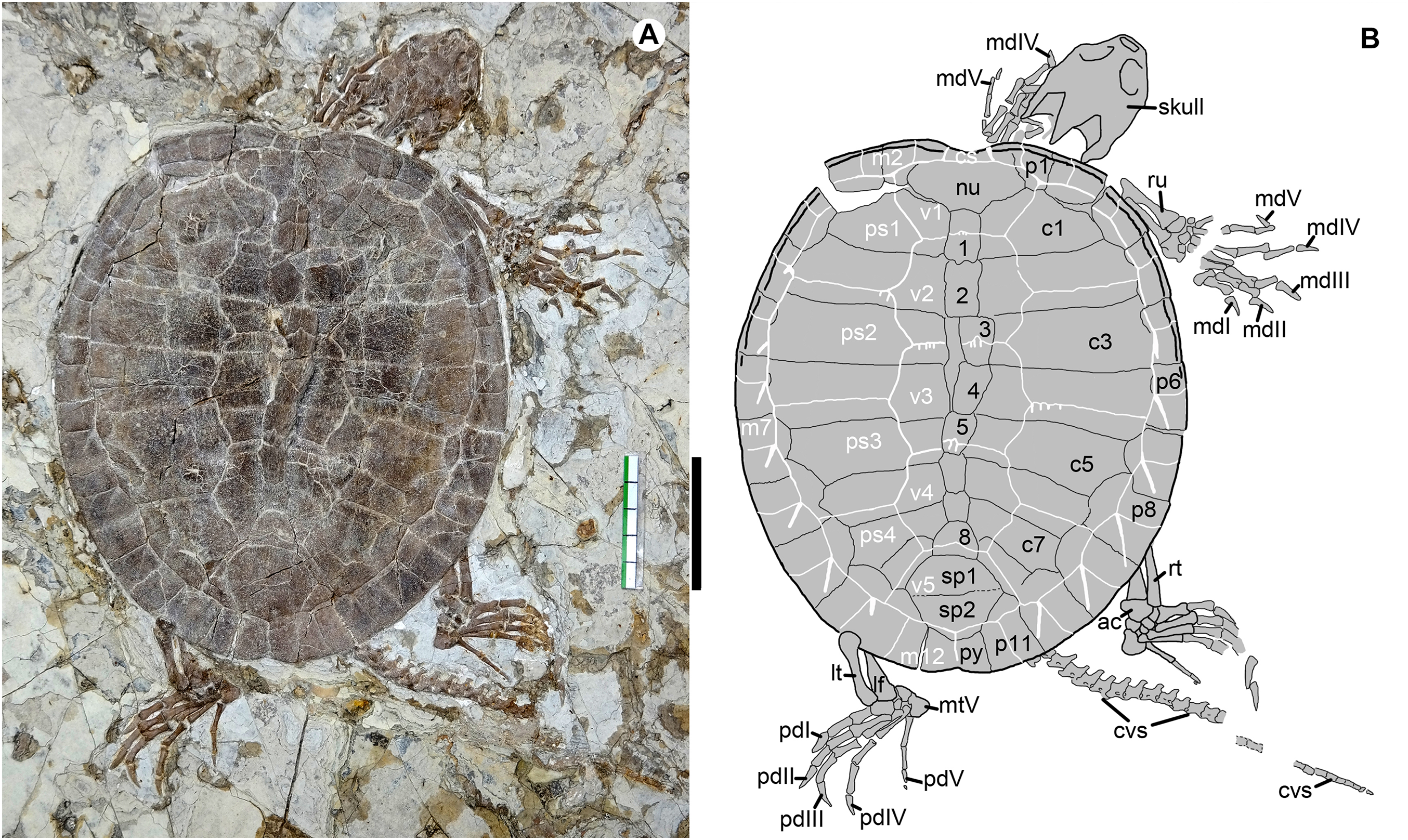 Jeholochelys lingyuanensis gen. et sp. nov. (Holotype, PMOL-AR00211; A and B, in dorsal view) from the Early Cretaceous Jiufotang Formation of Sihedang, Lingyuan, western Liaoning, China. Study sites: ac, astragalocalcaneum; cs, cervical scale; cvs, caudal vertebra series; c1–c8, costal plates 1–8; lf, left fibula; lt, left tibia; mdI–mdV, manual digits I–V; mtV, metatarsal V; m1–m12, marginal scales 1–12; nu, nuchal; pdI–pdV, pedal digits I–V; ps1–ps4, pleural scales 1–4; py, pygal; p1–p11, peripheral plates 1–11; rt, right tibia; ru, right ulna; sp1–sp2, suprapygals 1–2; v1–v5, vertebral scales 1–2; 1–8, neural plates 1–8. Scale bar equals to 50 mm.